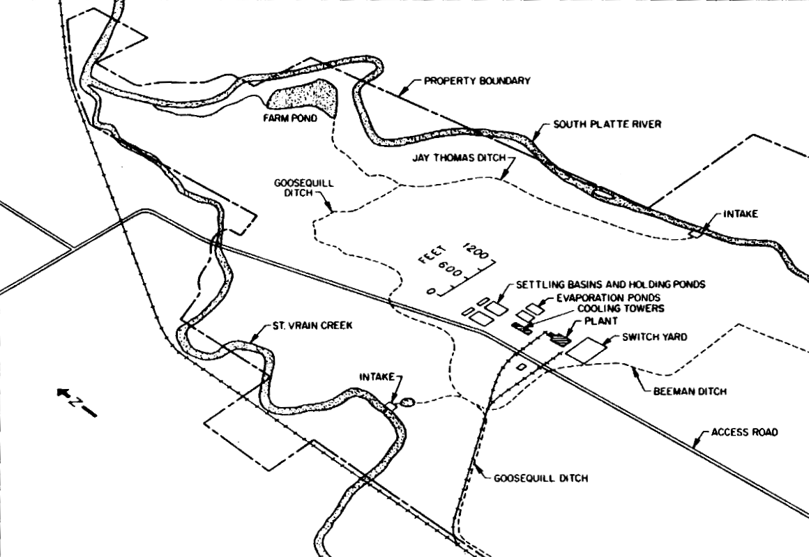 Land property where Fort St. Vrain nuclear power plant has been builded.